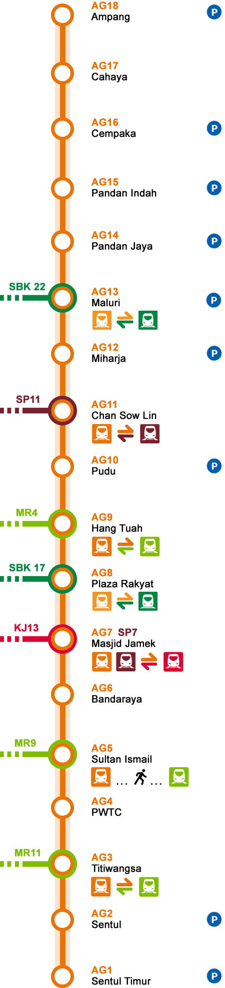 LRT Ampang Line route and interchanges